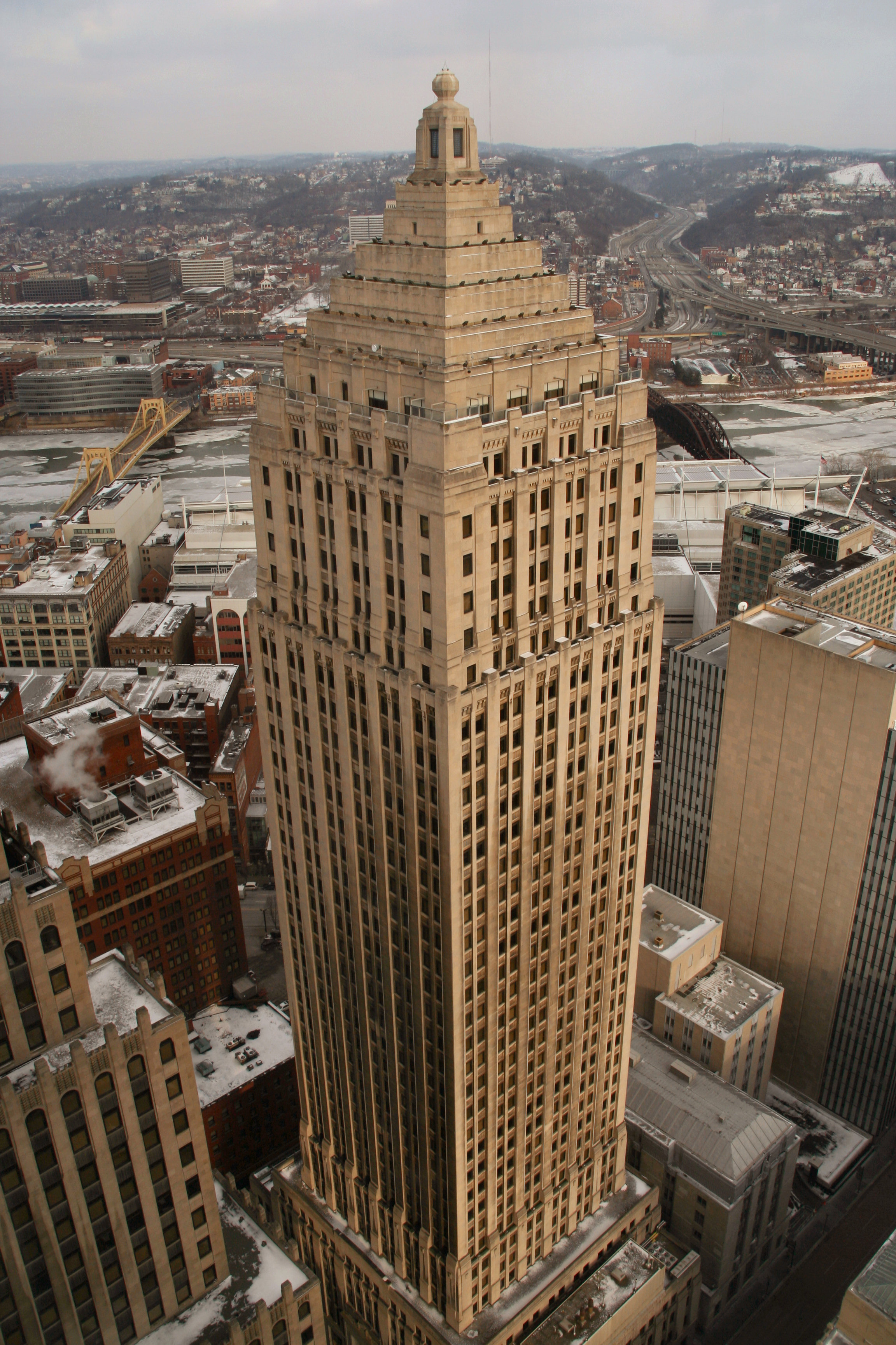 Gulf Tower in downtown Pittsburgh, Pennsylvania.